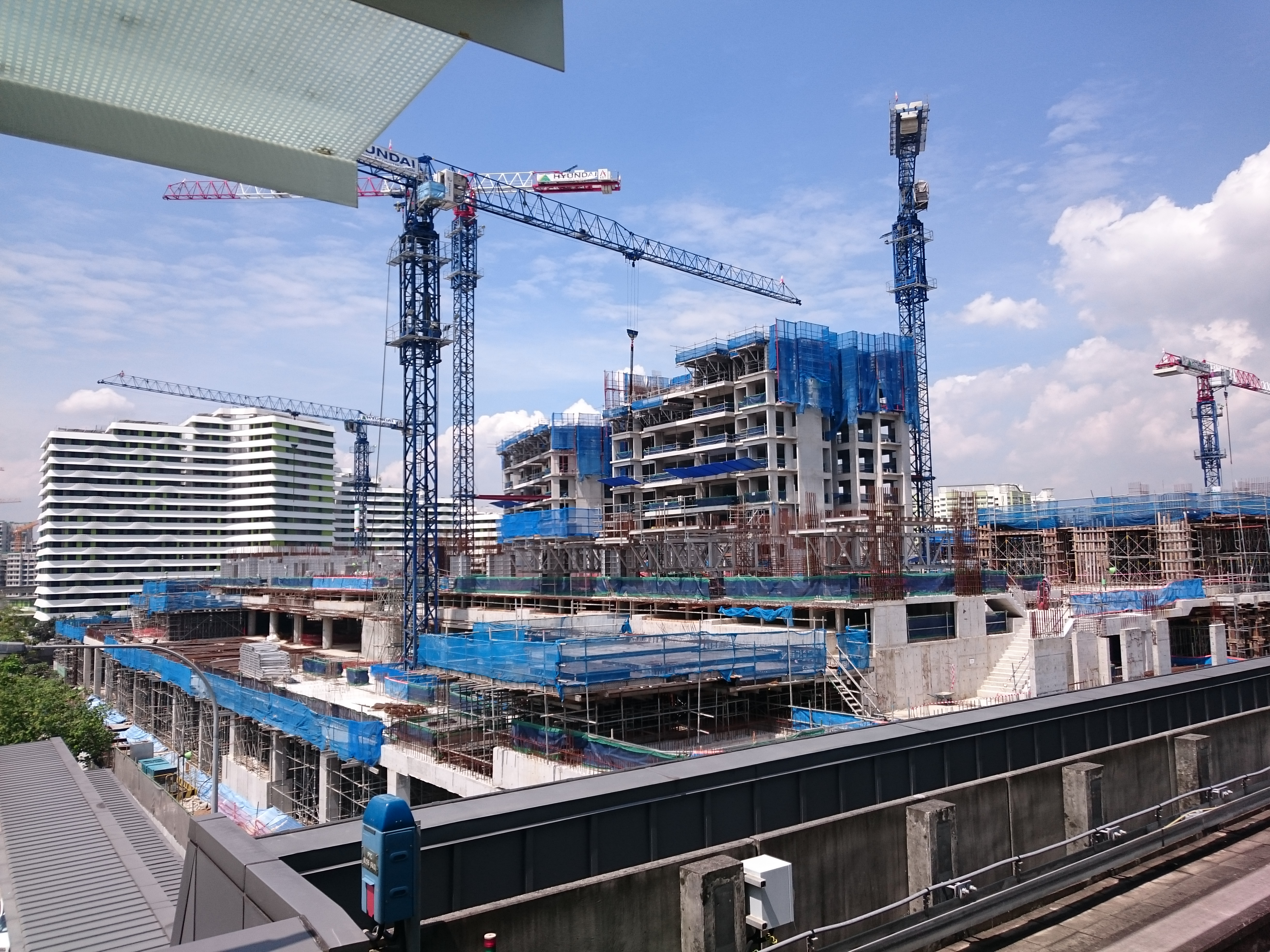 Construction site of Watertown, in 2014 Captured with Xperia Z3